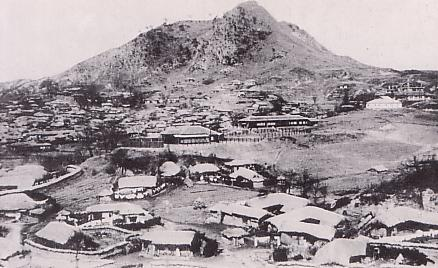 View of Shunsen(Chuncheon)